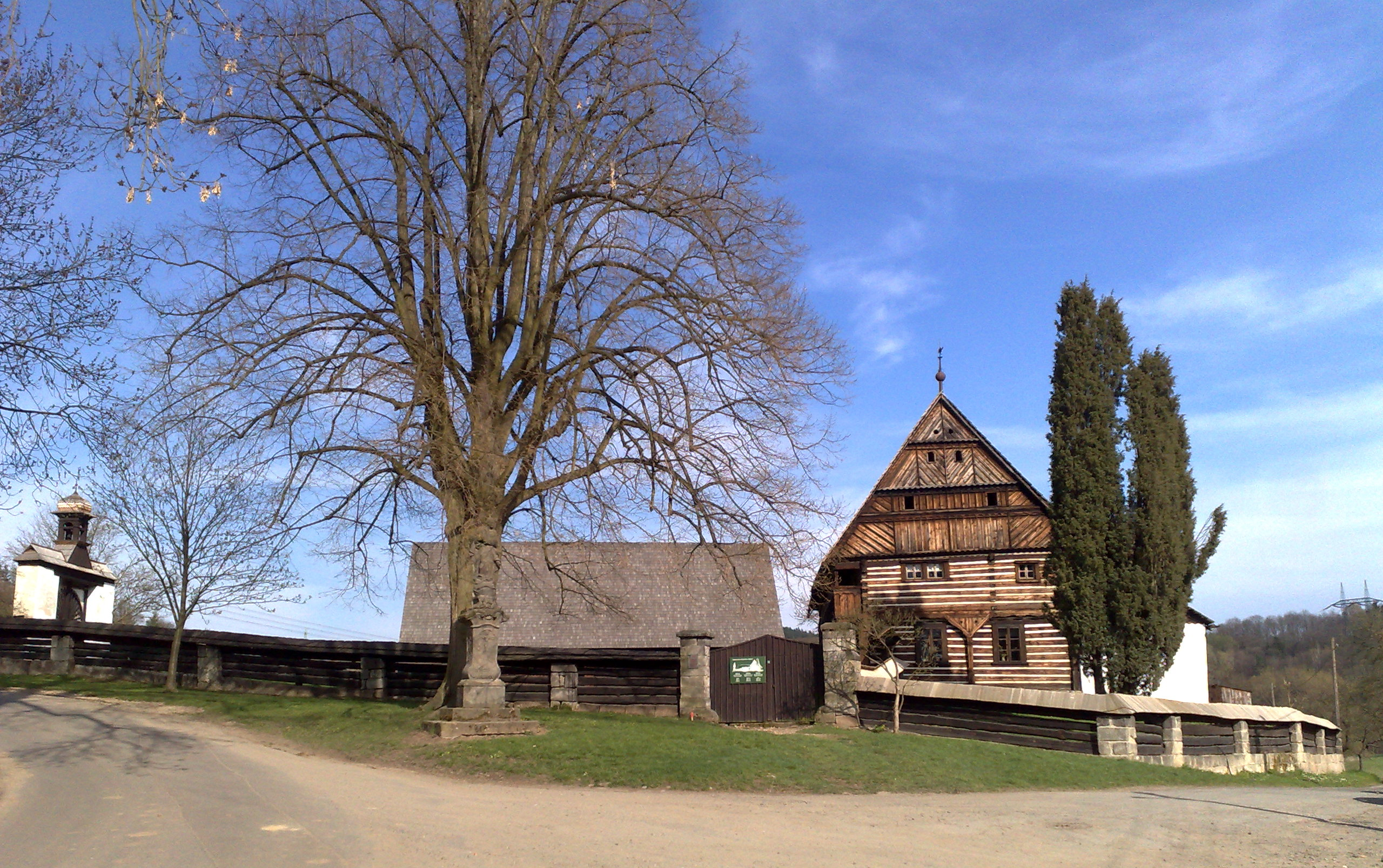 Dlasek's farm in Dolánky near Turnov, Czech Republic.